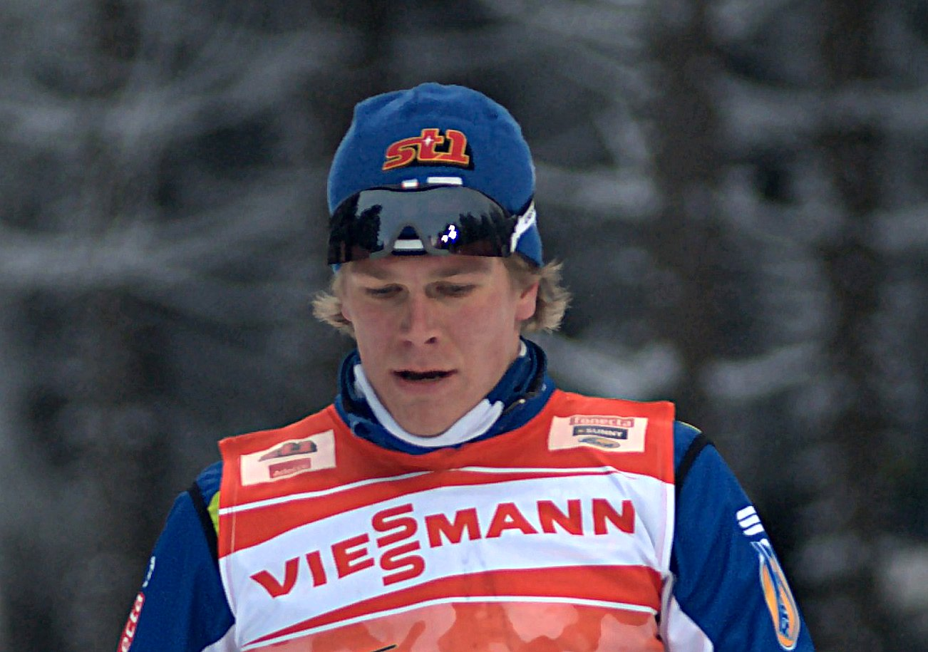 Matias Strandvall at the Tour de Ski 2010 in Oberhof